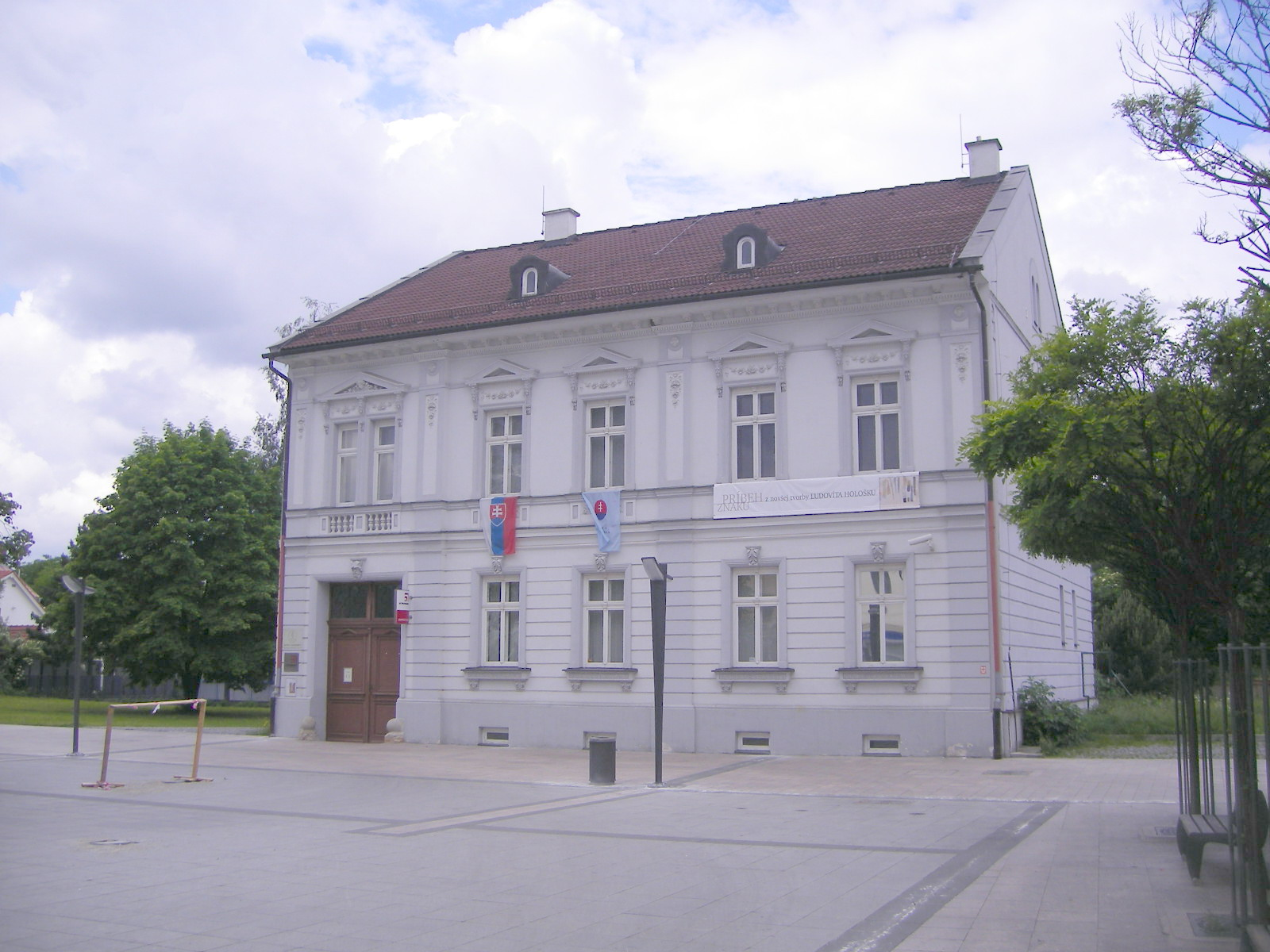 Martin, Slovakia, first provisory headquarter of the Matica slovenská.